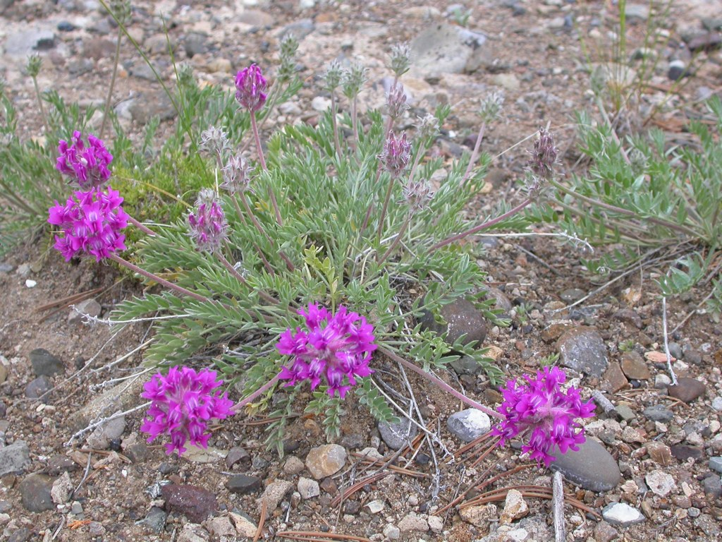 Oxytropis besseyi